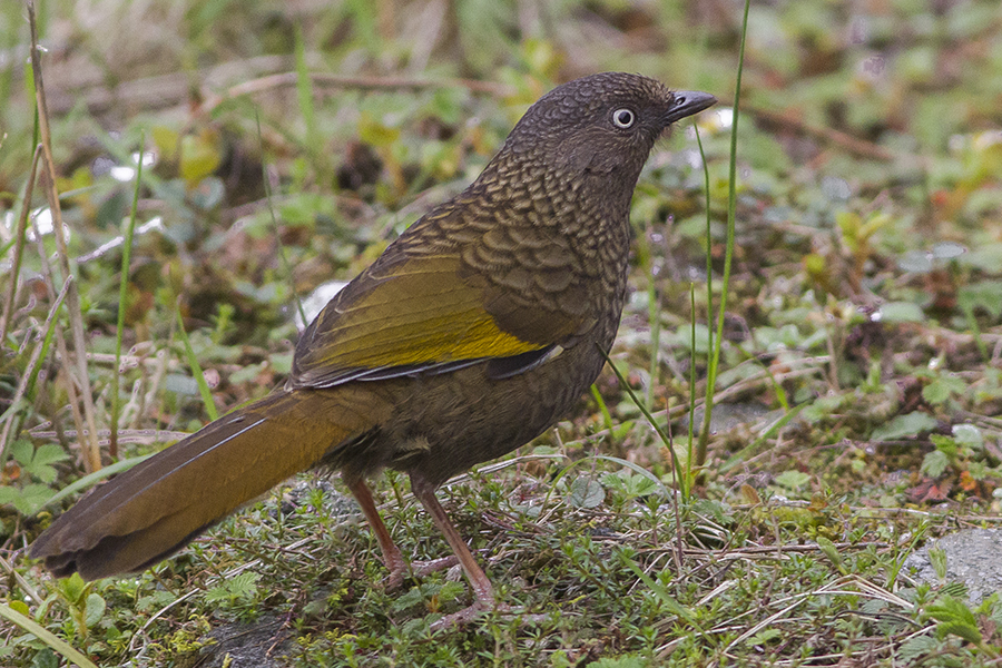 The specie Scaly Laughingthrush had been photographed from Zuluk (Pangolakha Wildlife Sanctuary), Sikkim, India on 16.05.2015.